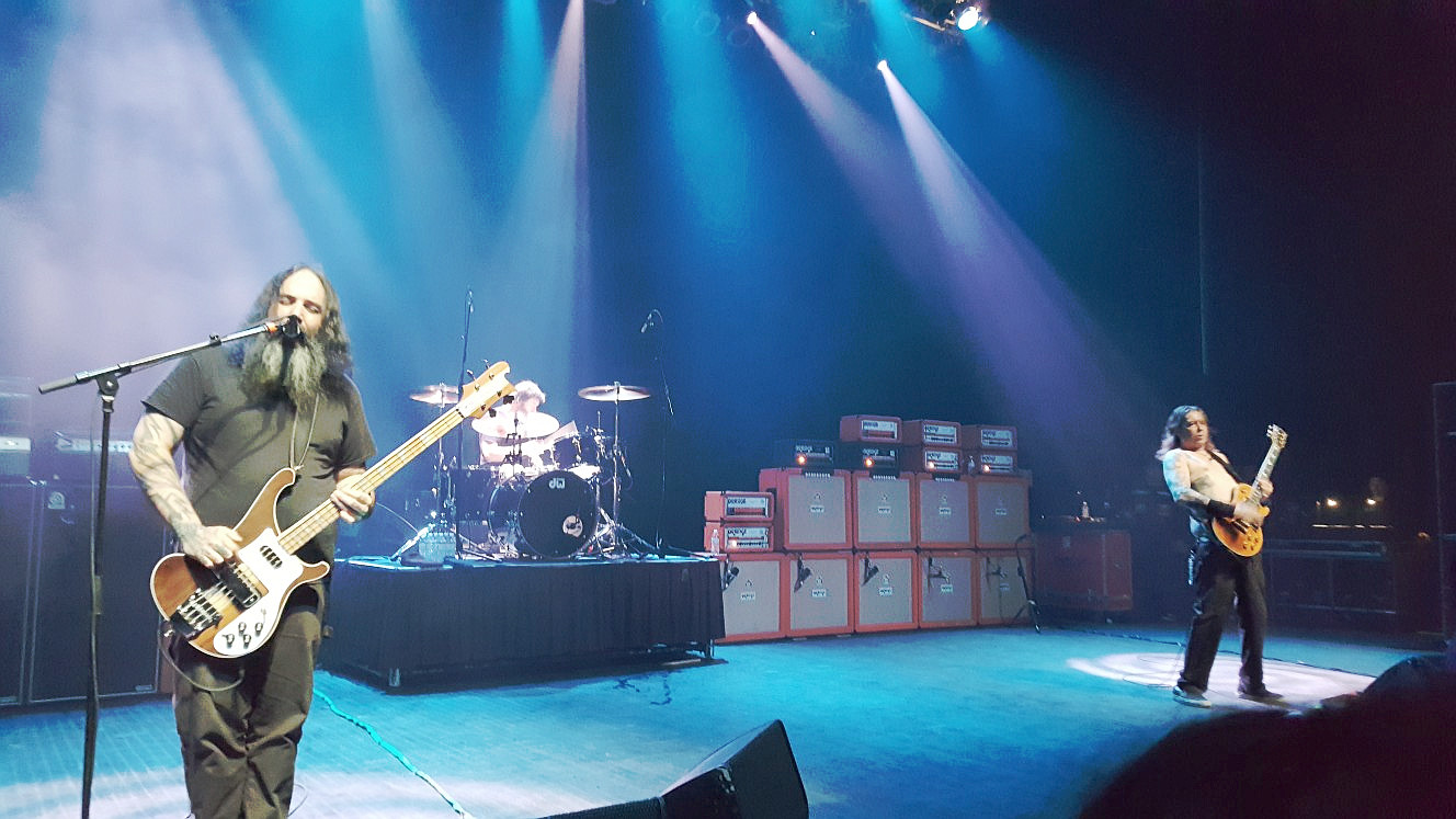 Sleep performing at the Filmore Detroit March 31, 2018. From R to L, Al Cisneros, Jason Roeder, Matt Pike.